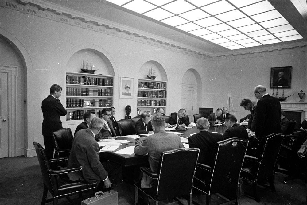 The Cuban Missile Crisis Summary President Kennedy leans over the table in a crowded Cabinet Room during the Cuban Missile Crisis. The Cabinet Room is next to the Oval Office in the West Wing. During the Kennedy administration, it exhibited portraits of George Washington (seen here over the mantle), Andrew Jackson, and Thomas Jefferson. A model of the clipper ship Sea Witch sits on the mantle. The table around which the president’s advisors sit was given to the White House during Franklin D. Roosevelt’s administration. Date October 29, 1962 Creator Cecil Stoughton, White House Credit John F. Kennedy Library This image is public domain Source Image